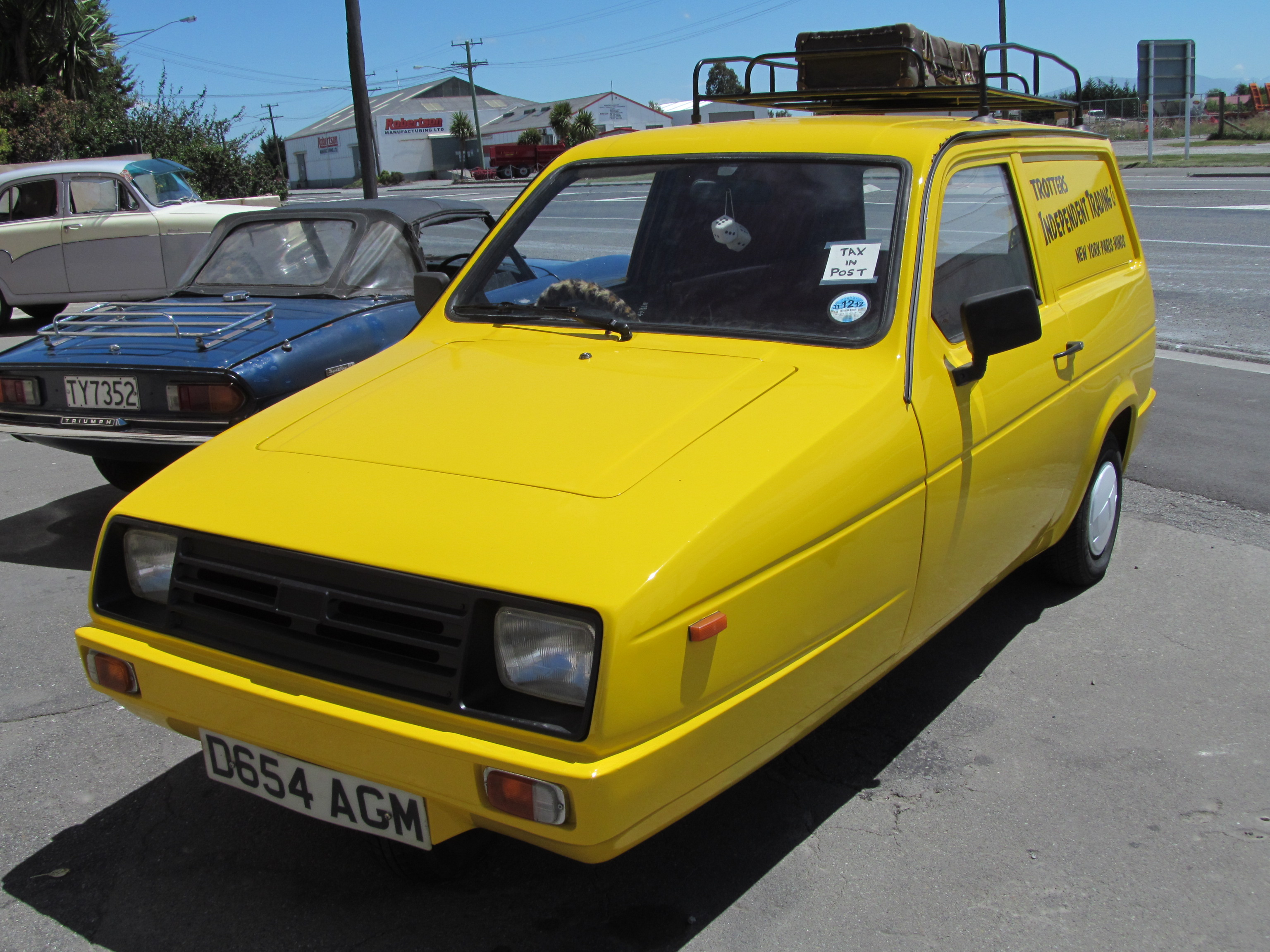 The vehicle details for D654 AGM are: Date of Liability 11 05 2013 Date of First Registration 08 06 1987 Year of Manufacture 1987 Cylinder Capacity (cc) 848cc CO₂ Emissions Not Available Fuel Type PETROL Export Marker Y Vehicle Status Unlicensed Vehicle Colour RED Vehicle Type Approval Not Available Originally hailing from Reading, this Reliant now resides in NZ at Hinds with its owner, fellow Flickr member 'wactonbus'!